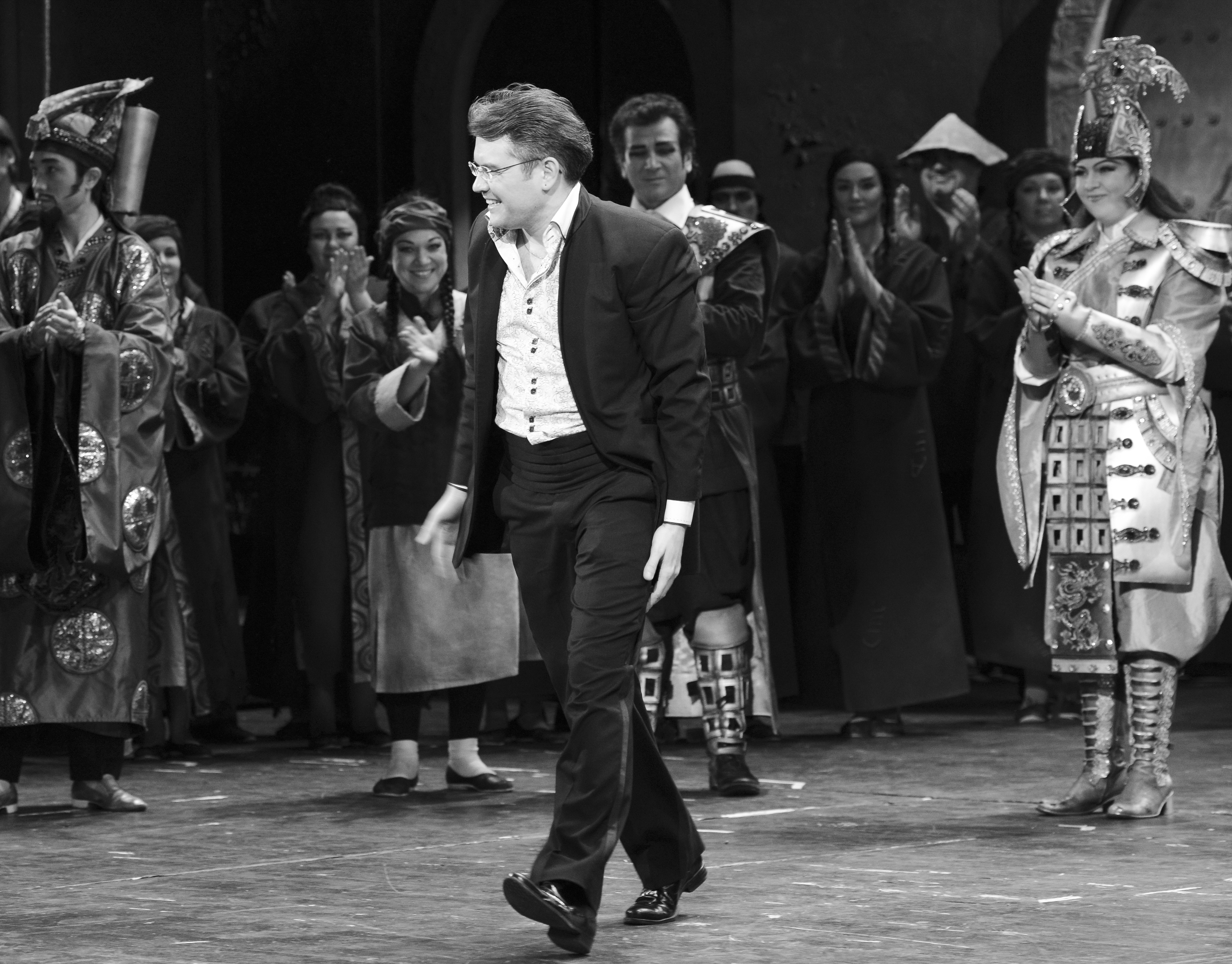 Airat Ichmouratov after performance of Turandot at Tatarstan State Academic Opera and Ballet Theatre, Kazan, Russia 28 November 2012